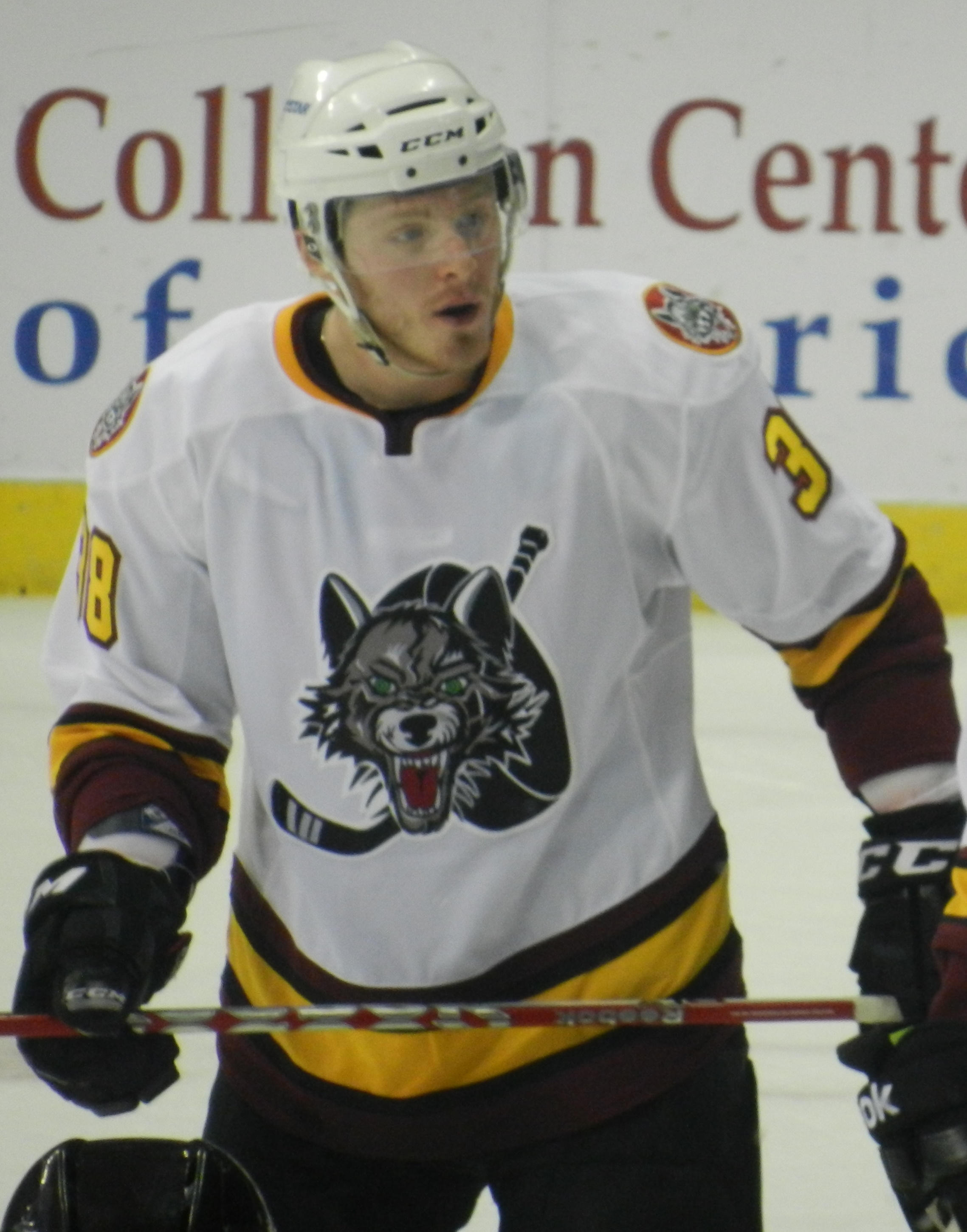 Victor Oreskovich playing for the Chicago Wolves during the 2011-12 AHL season